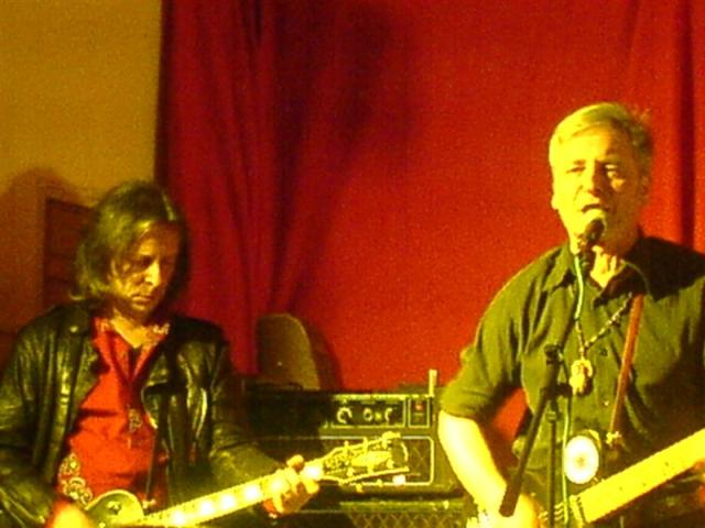 Severini Brothers in Linaro di Cesena